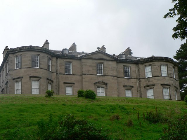 Milne Graden House Milne Graden is a large country house and estate on the banks of the River Tweed near Coldstream.